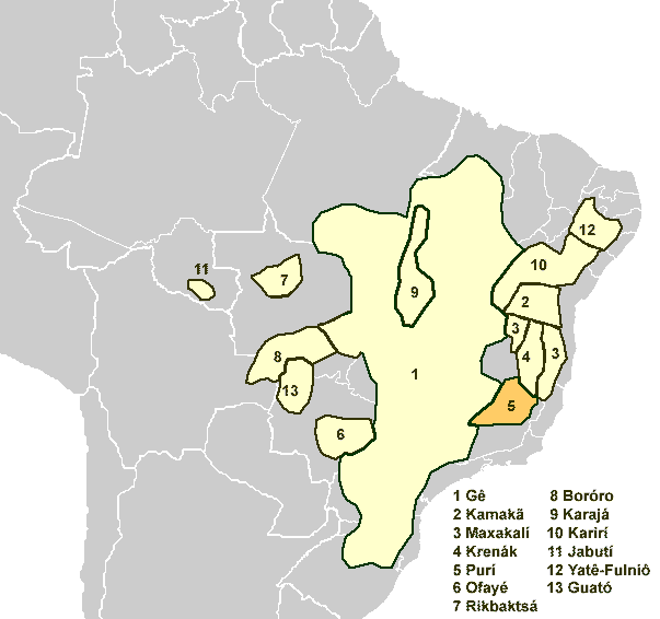 Purí languages (orange) Source: Ribeiro, Eduardo & Van der Voort, Hein (2010) “Nimuendajú was right: The inclusion of the Jabuti language family in the Macro-Jê stock”, International Journal of American Linguistics, 76/4.